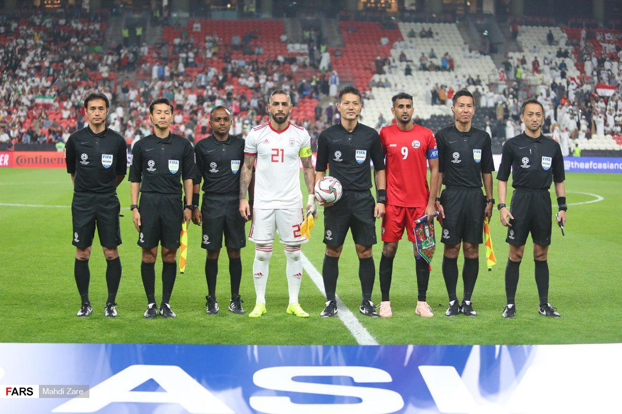 Iran & Yemen Group D match, 2019 AFC Asian Cup